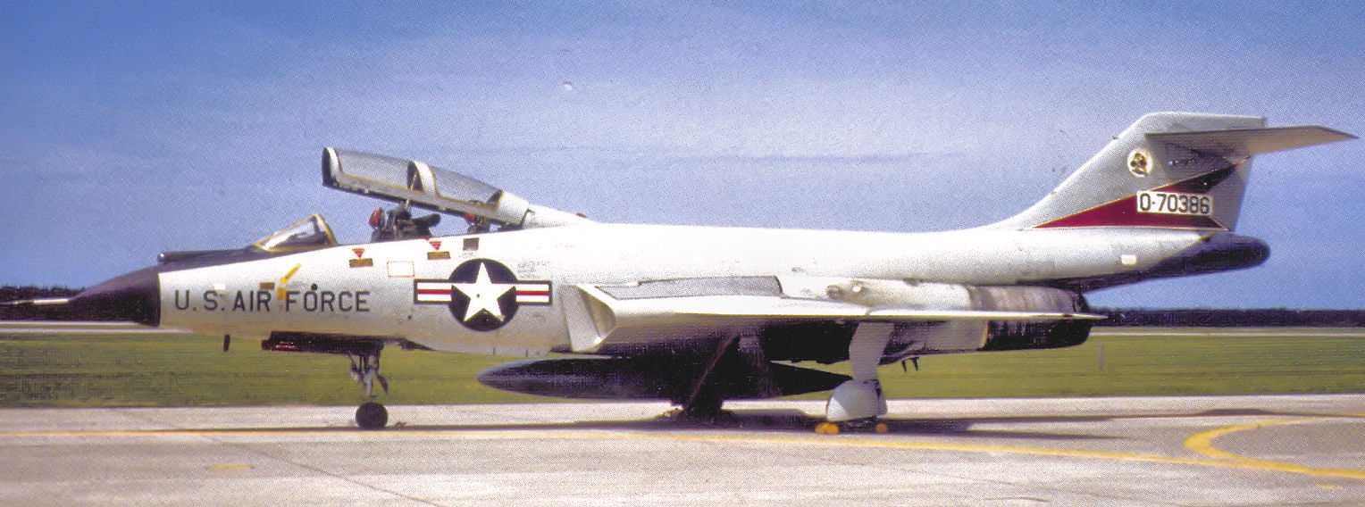 62d Fighter-Interceptor Squadron McDonnell F-101B-95-MC Voodoo 57-386 K. I. Sawyer Air Force Base, Michigan July 1968